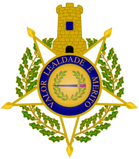 Insignia of the Military Order of Tower and Sword